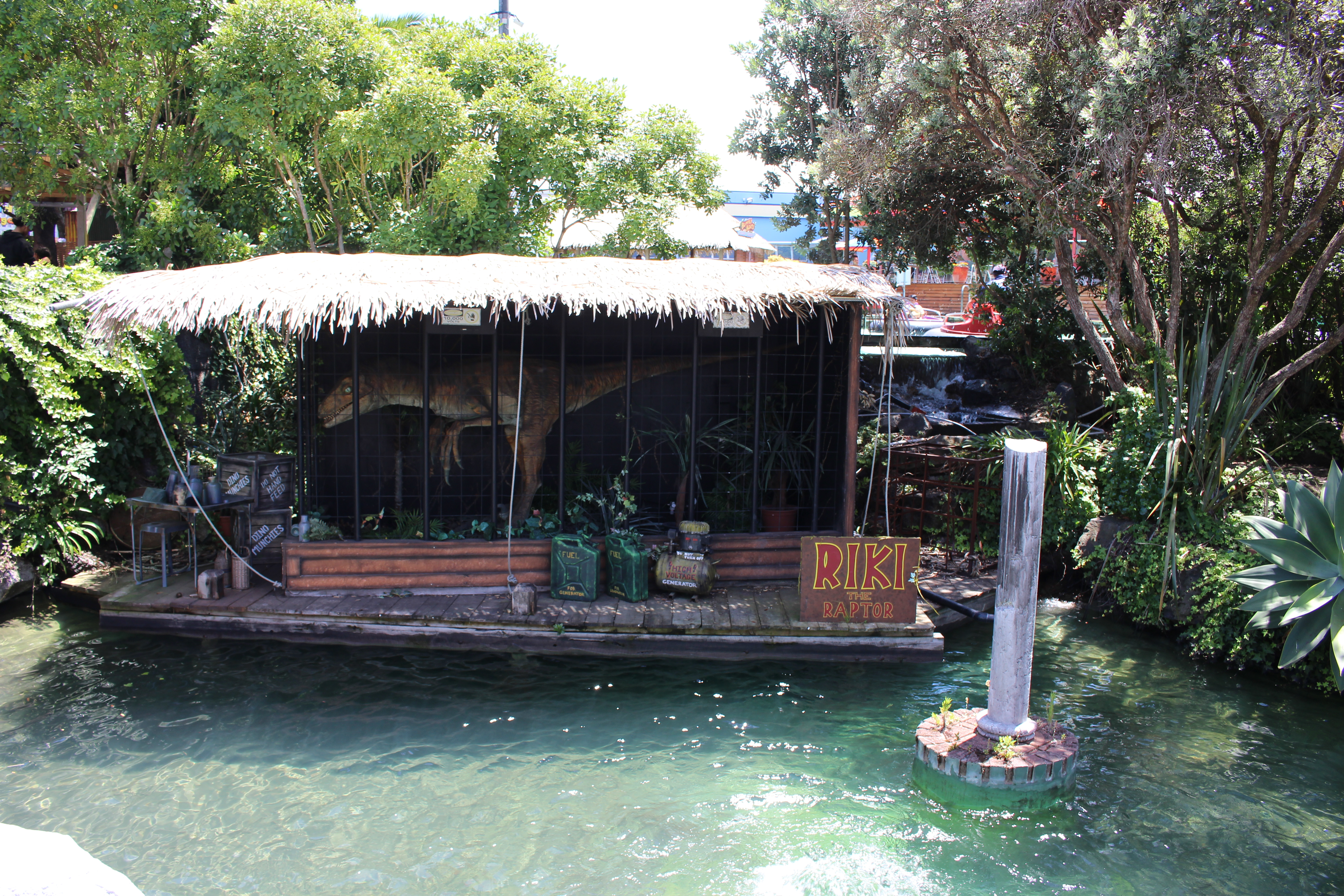 Rainbow's End Riki the Raptor - Located near Motion Master